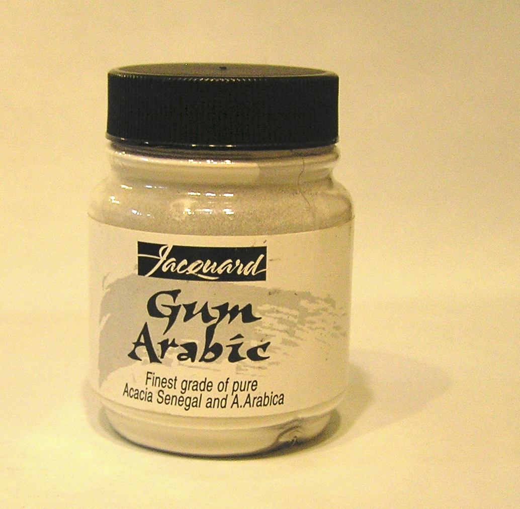 Gum arabic powder in tub